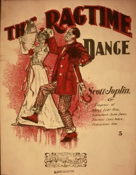 The Ragtime Dance, 1902